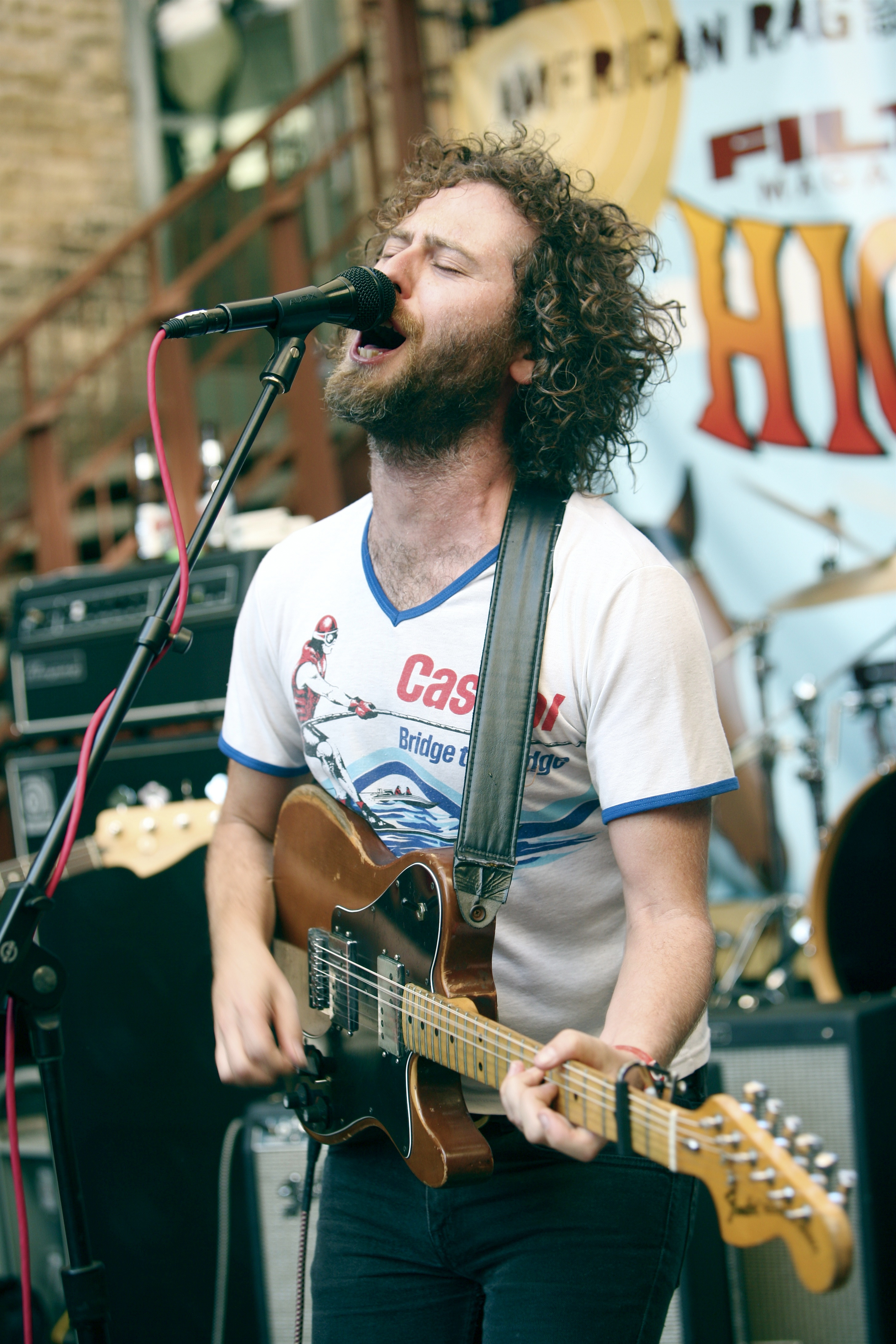 Youth Group performing at South by Southwest. Photographed by Kris Krug.